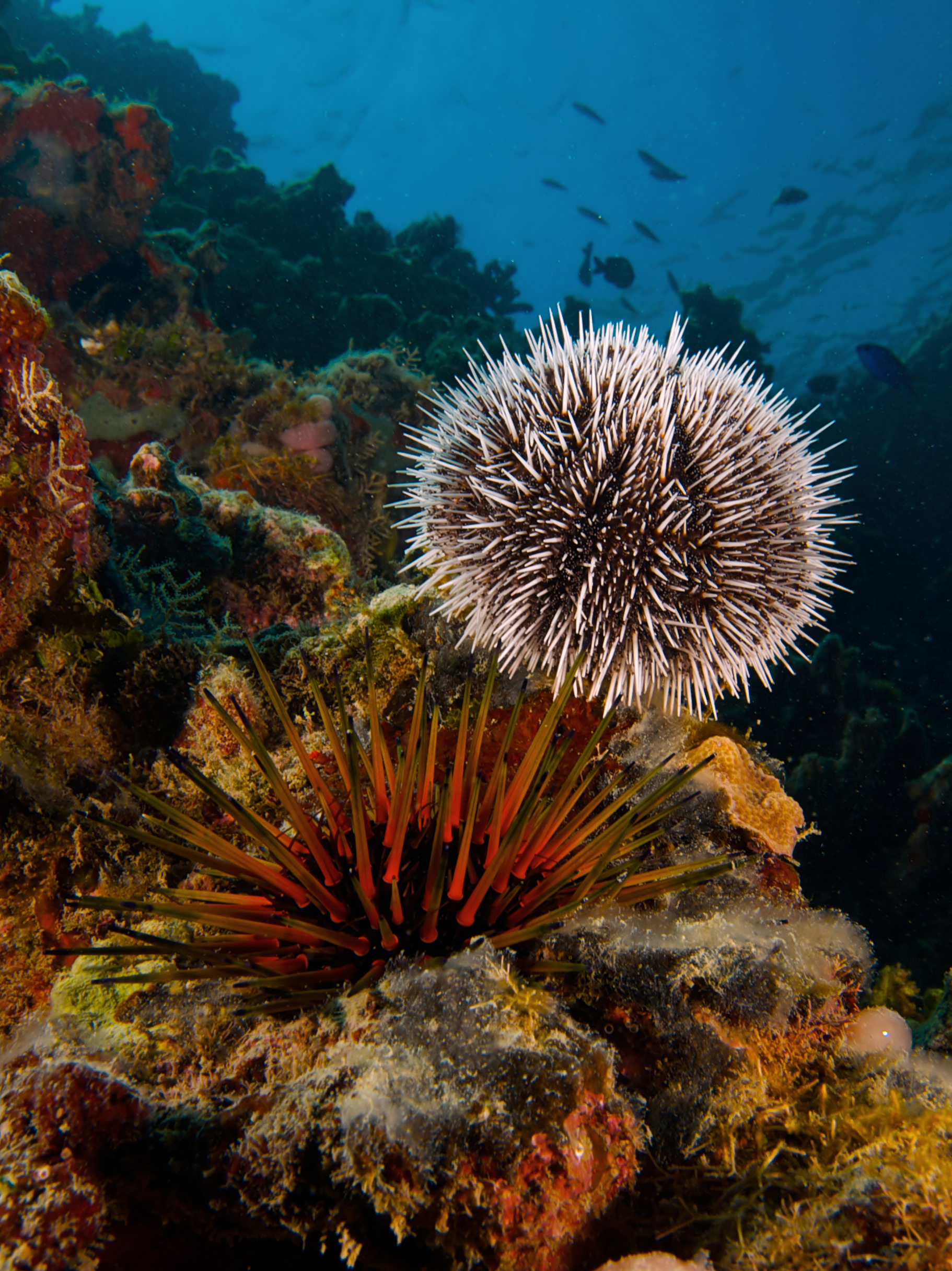 Tripneustes ventricosus (West Indian Sea Egg-top) and Echinometra viridis (Reef Urchin - bottom).